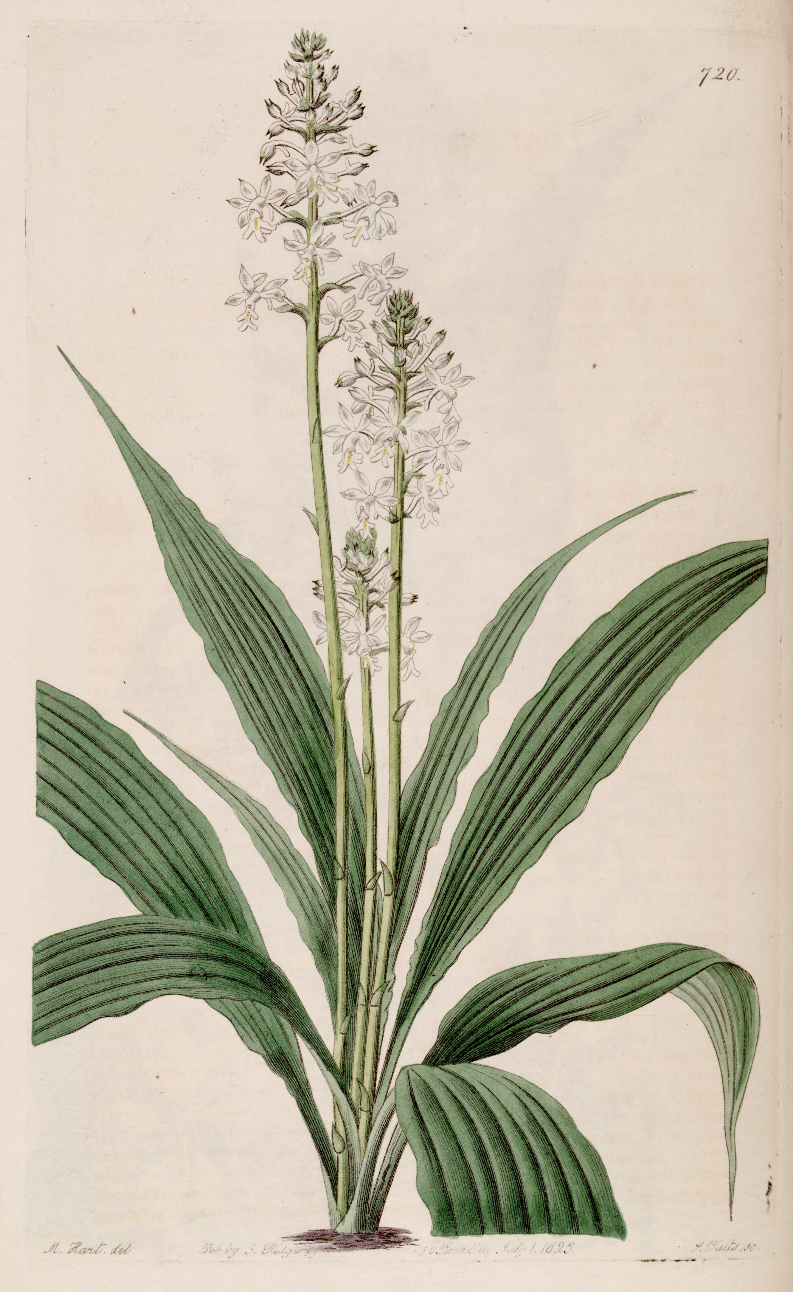 Illustration of Calanthe triplicata (as syn. Calanthe veratrifolia) (plant)